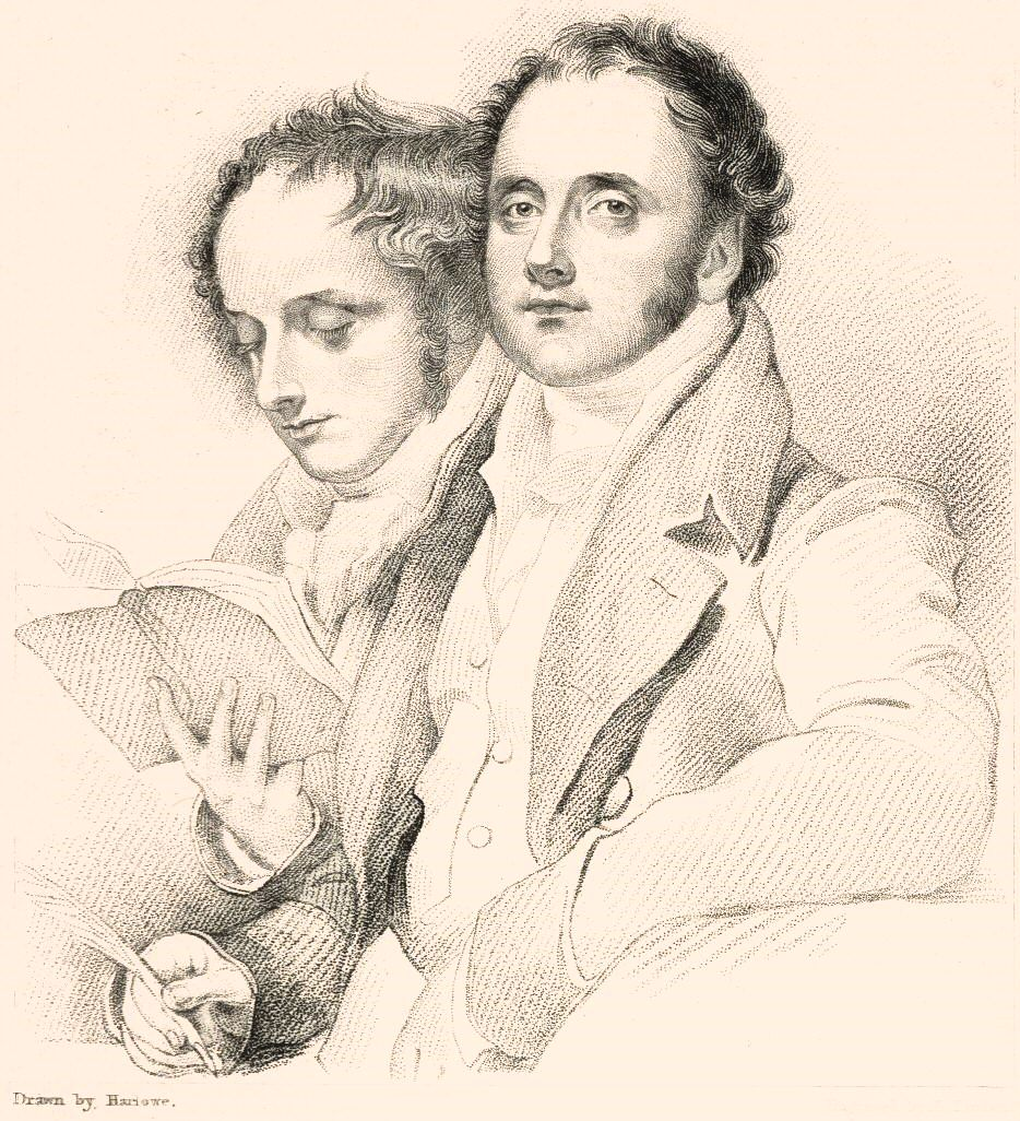 James and Horace Smith, authors of the famous collection of parodies, Rejected Addresses (1812). The drawing of them was in the possession of the publisher John Murray and was reproduced in the 1833 eighteenth edition of the book.